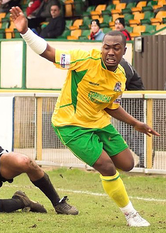 Richard Pacquette. Image cropped from original at flickr.